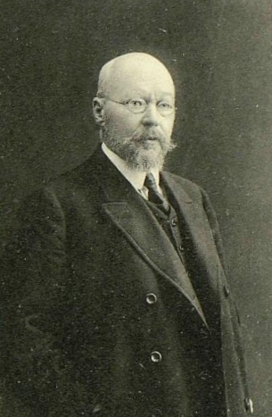 Basilius von Anrep